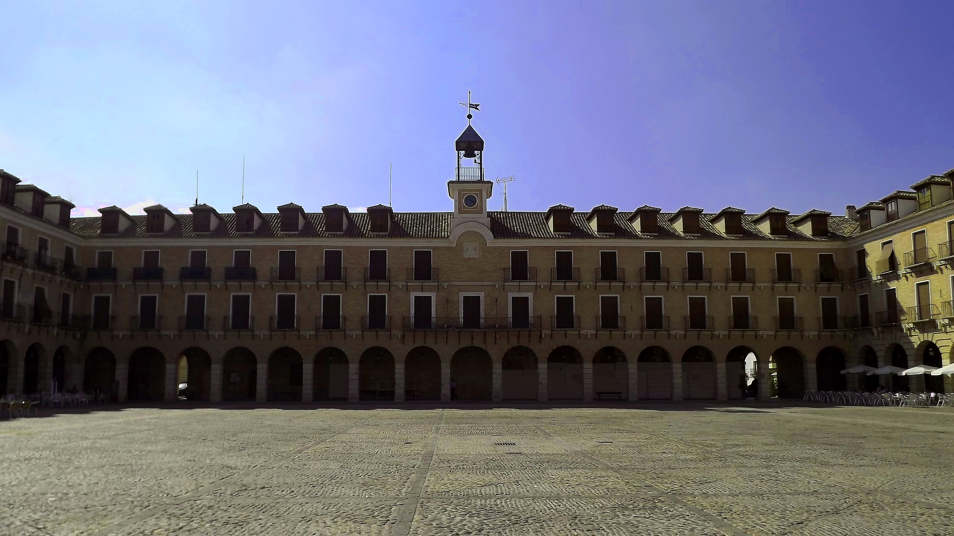 A photo of the Mayor Square of Ocaña